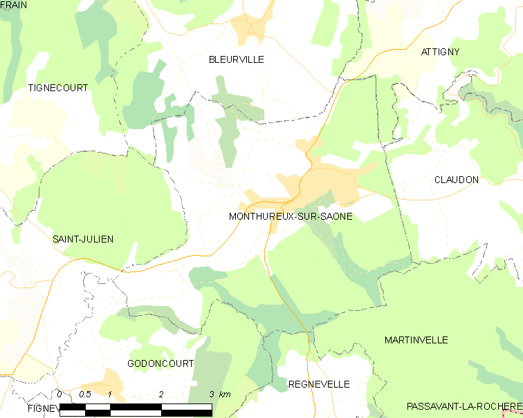 Map of French municipality Monthureux-sur-Saône